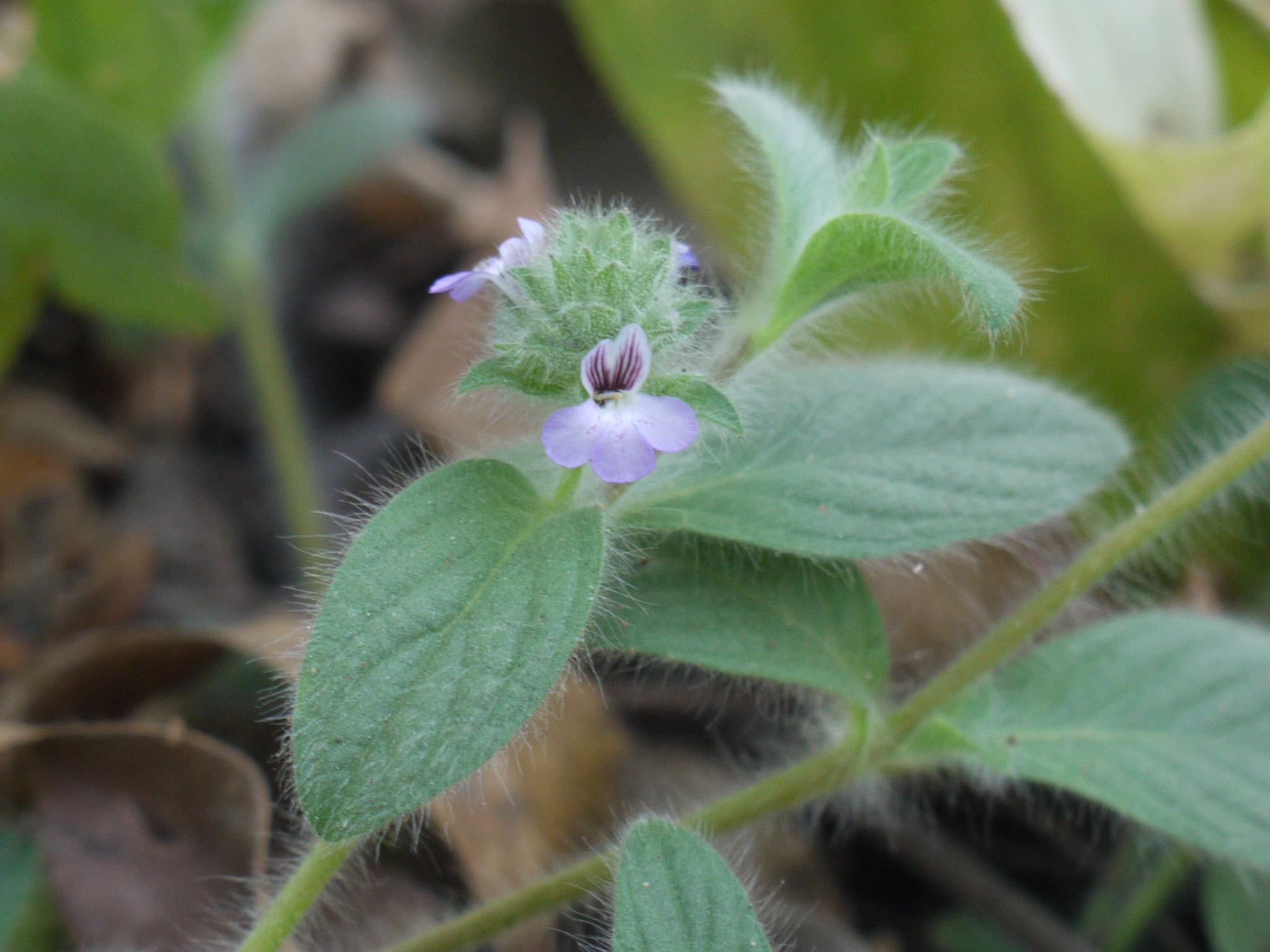 Acanthaceae (acanthus or ruellia family) » Nelsonia canescens ¿ nel-SOH-nee-uh -- ? kan-ESS-kens -- grey hair, greyish commonly known as: blue pussyleaf Native to: tropical w Africa; naturalized elsewhere References: NPGS / GRIN • Garden Guides